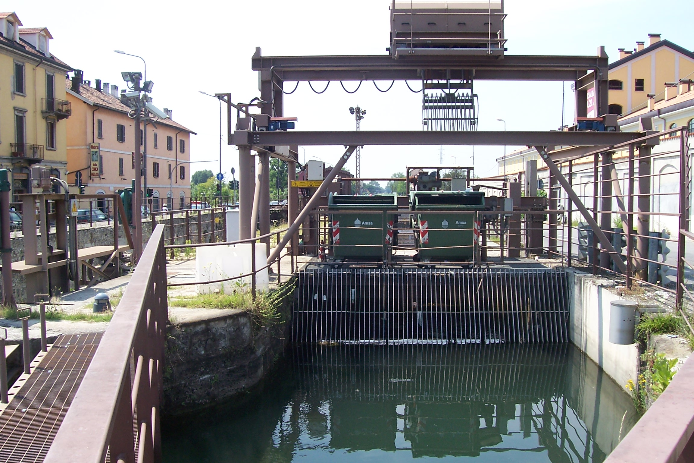 Milano, Conca Fallata, ancora le sovrastrutture della Centrale Idroelettrica . La Conca e funzionante , La Centrale spesso in panne per Le Erbe Che ne bloccano Il Flusso